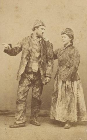 Portrait of Mary Ann and Joseph Jewell, two survivors of the wreck of the American merchant ship General Grant on the Auckland Islands